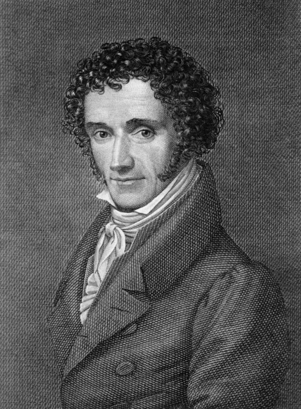 Philipp Lorenz Geiger (1785–1836), German chemist and pharmacist; Professor at the University of Heidelberg from 1824 until his death, credited with discovering Coniine, Atropine, Colchicine and other plant alkaloids